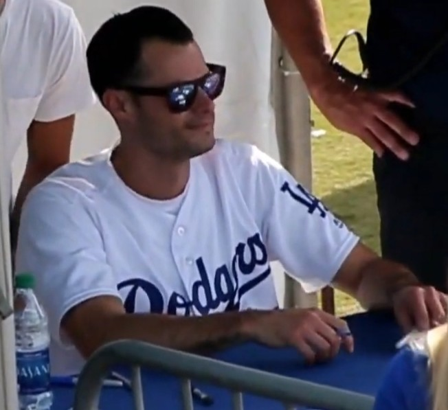 2019 DODGERS FANFEST